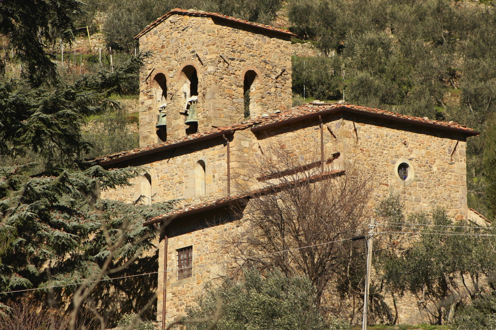 Church/Sanctuary Madonna delle Grazie, Tre Colli, hamlet of Calci, Province of Pisa, Tuscany, Italy